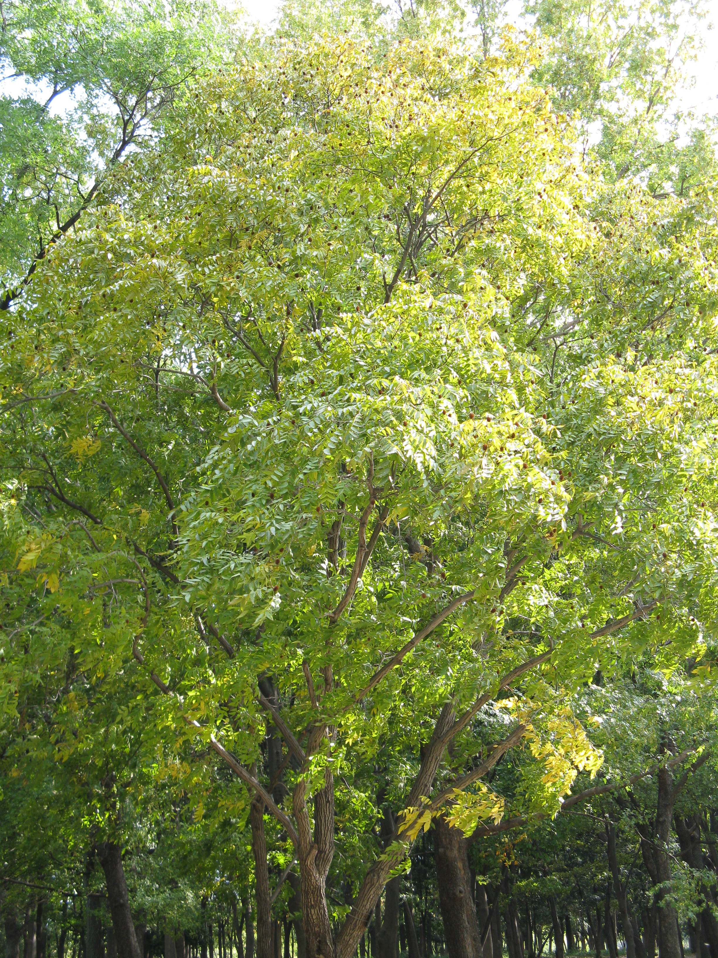 Platycarya strobilacea